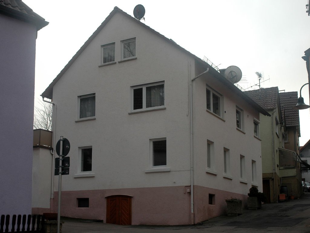 former synagogue in Oedheim